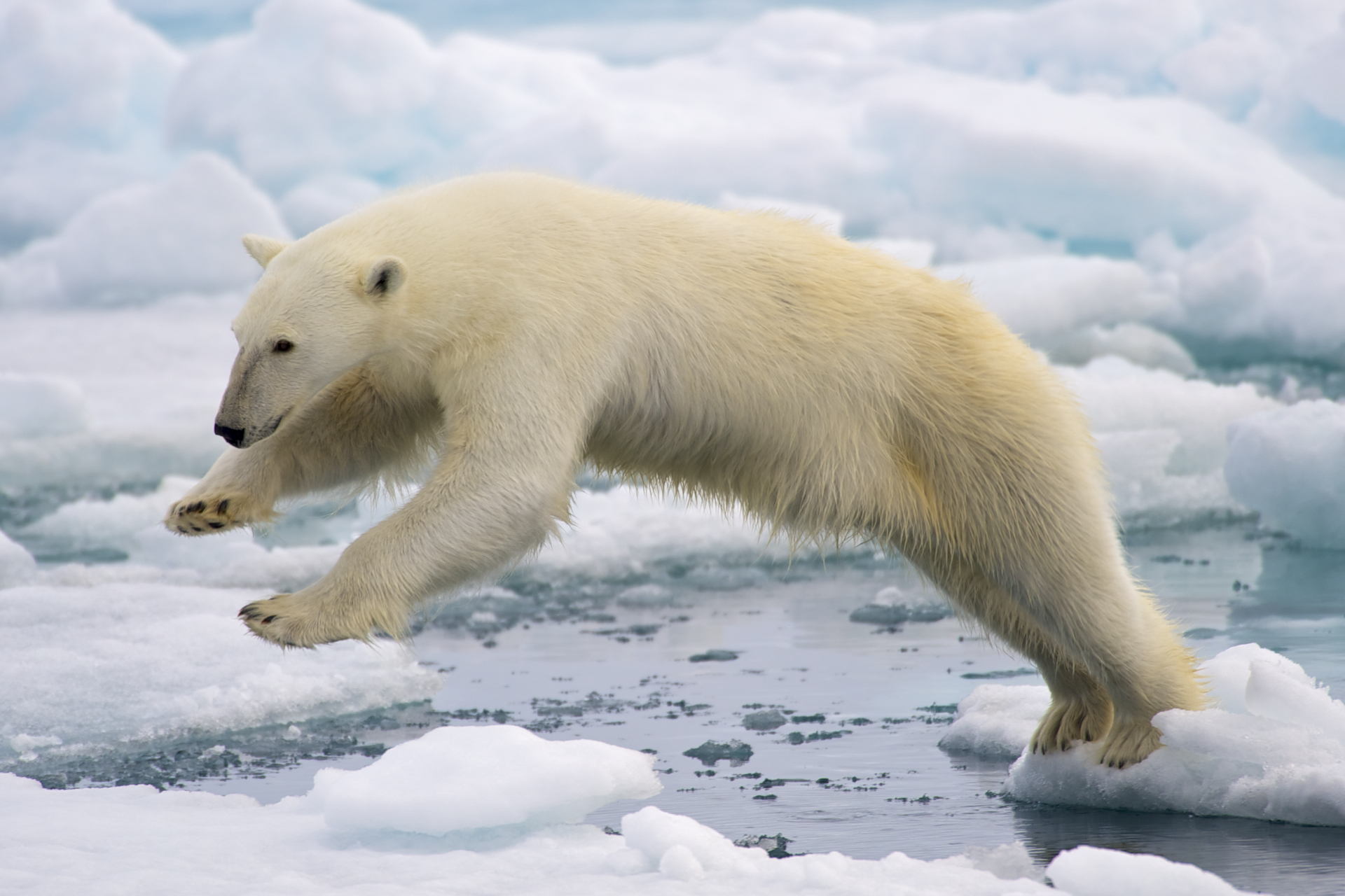 Polar Bear jumping, in Spitsbergen Island, Svalbard, Norway.